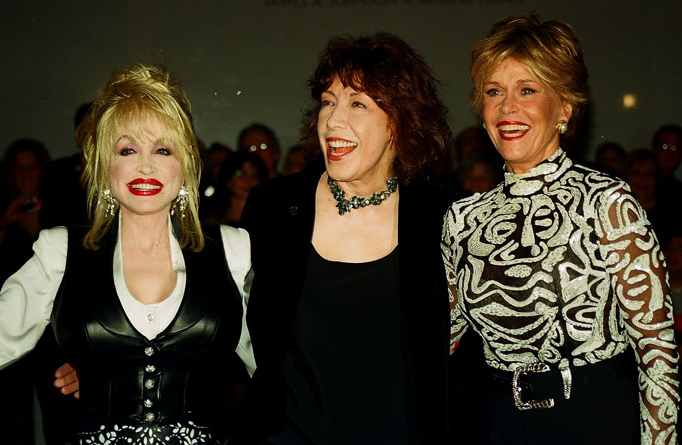 Wash D.C. Kennedy center 2000